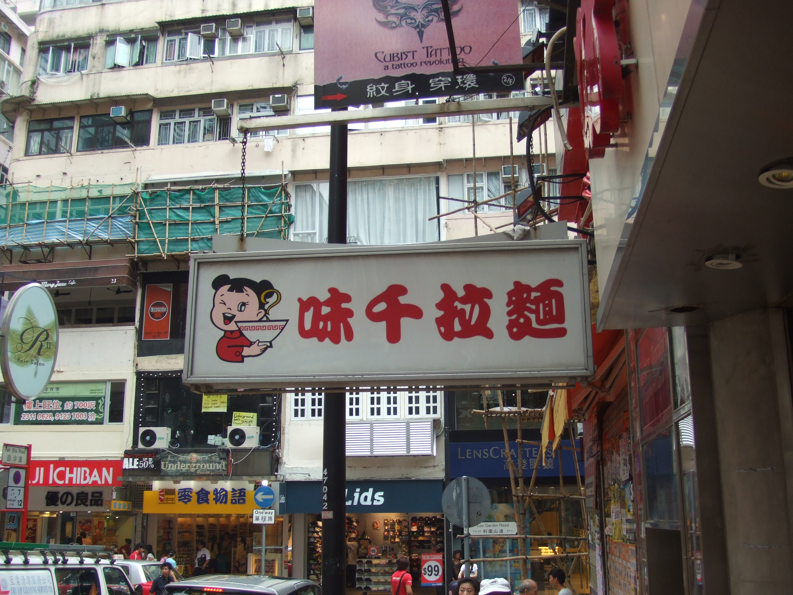 Ramen shop Ajisen in Hong Kong, China